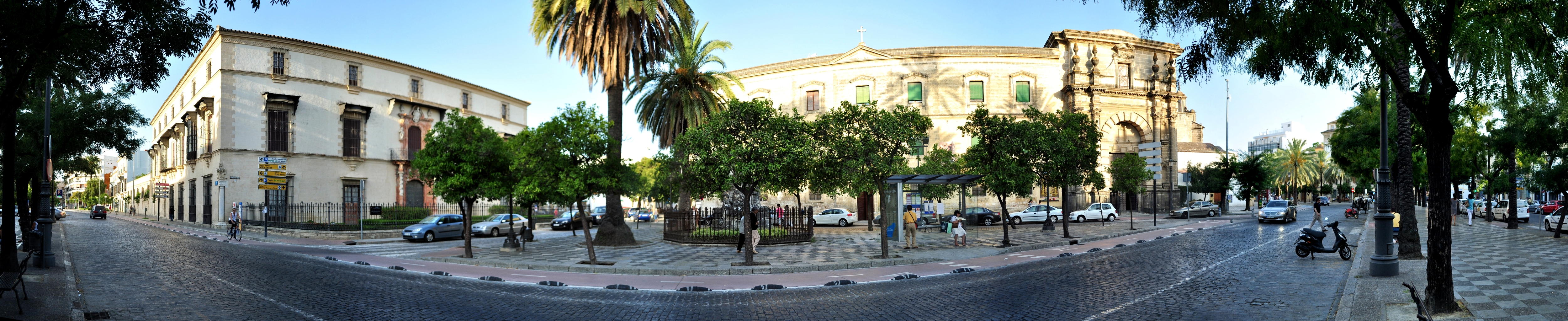 Cristine Square Panoramic, Jerez de la Frontera.